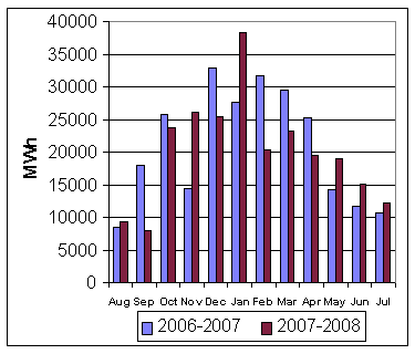 Monthly output of the Erie Shores Wind Farm from August 2006 to August 2008.